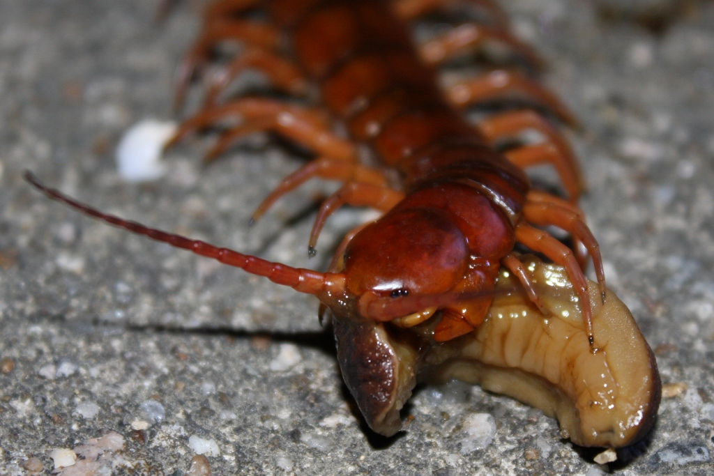 Getting stuck into an unfortunate slug, taken at Lions Nature Education Centre.